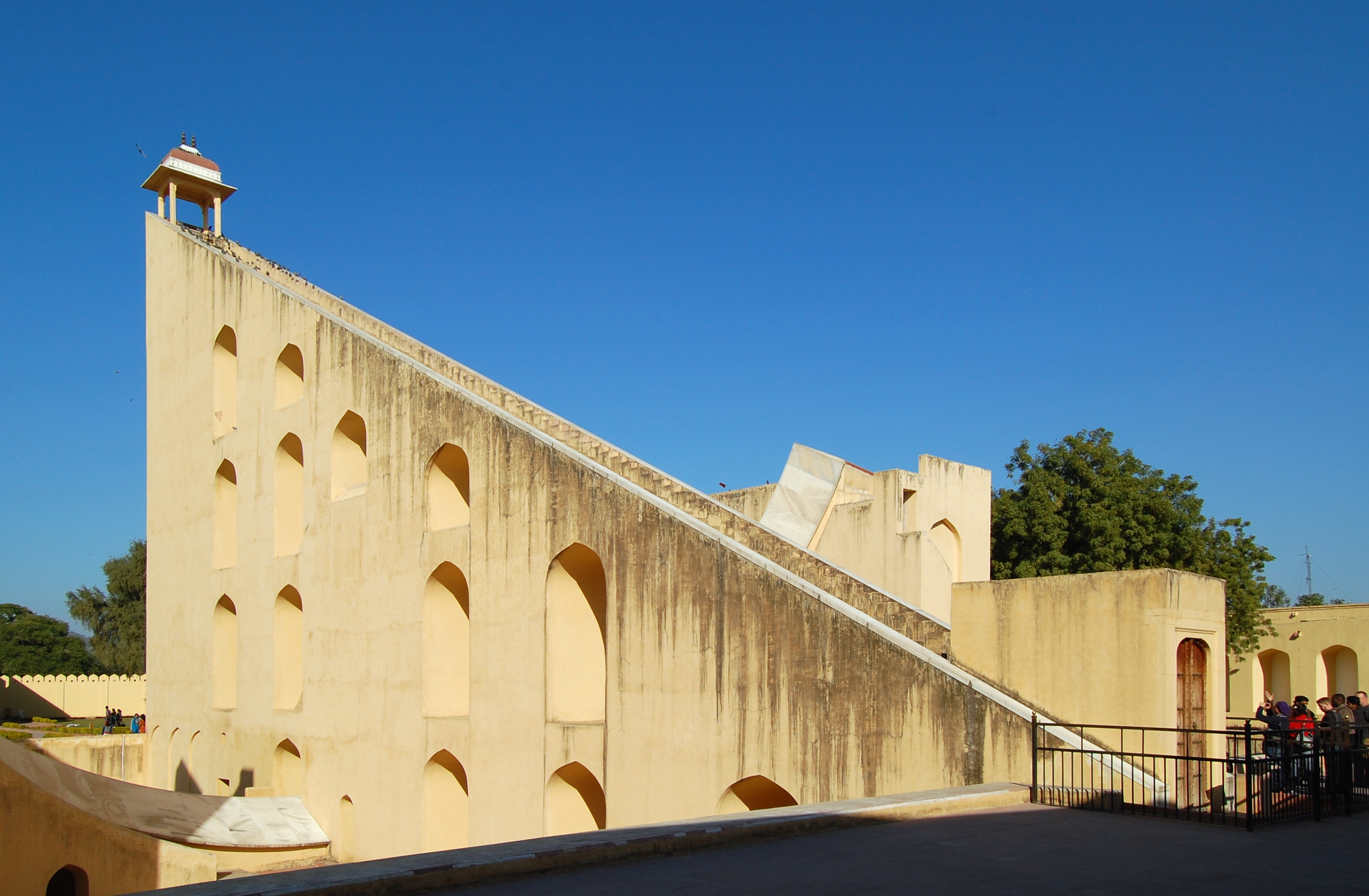 Samrat Yantra (Giant sundial) in Jantar Mantar, Jaipur, India.